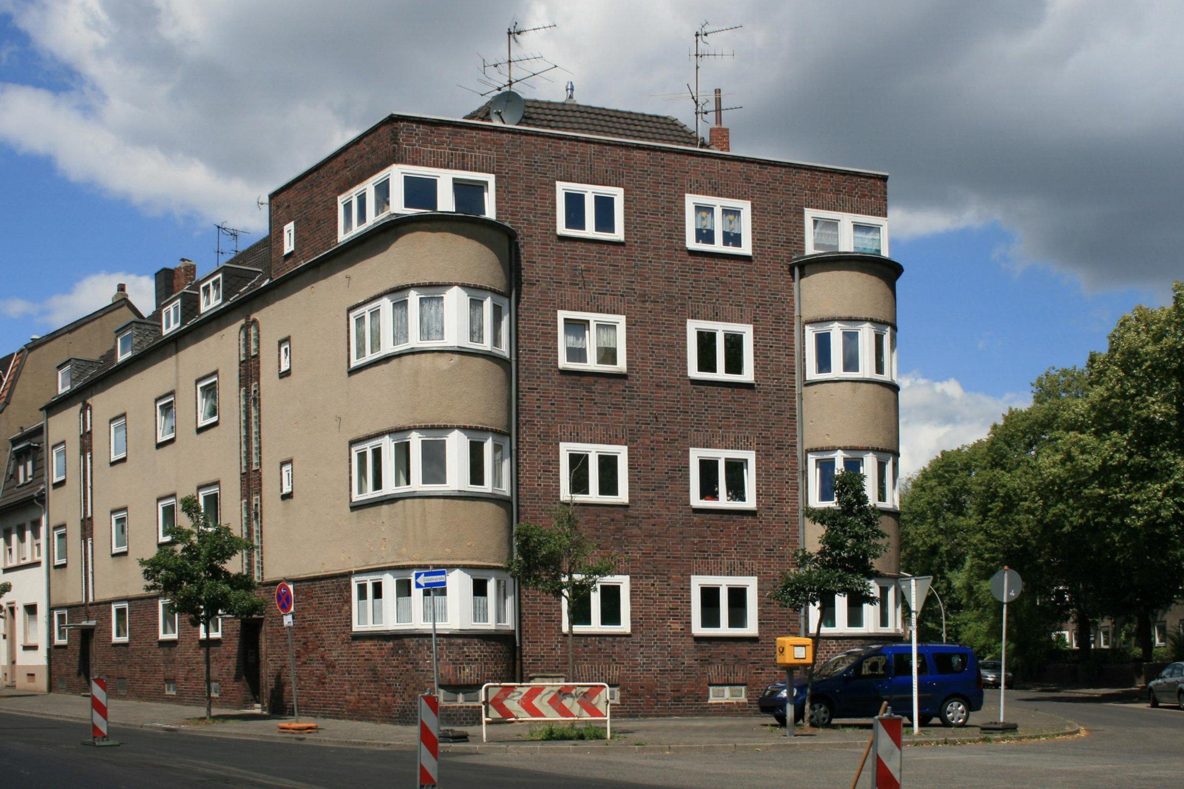 Cultural heritage monument No. G 048 in Mönchengladbach